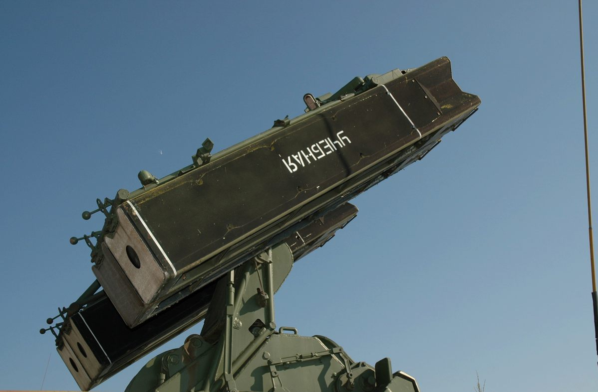 Container-laucher boxes on the Strela-1 system, Kecel, Hungary